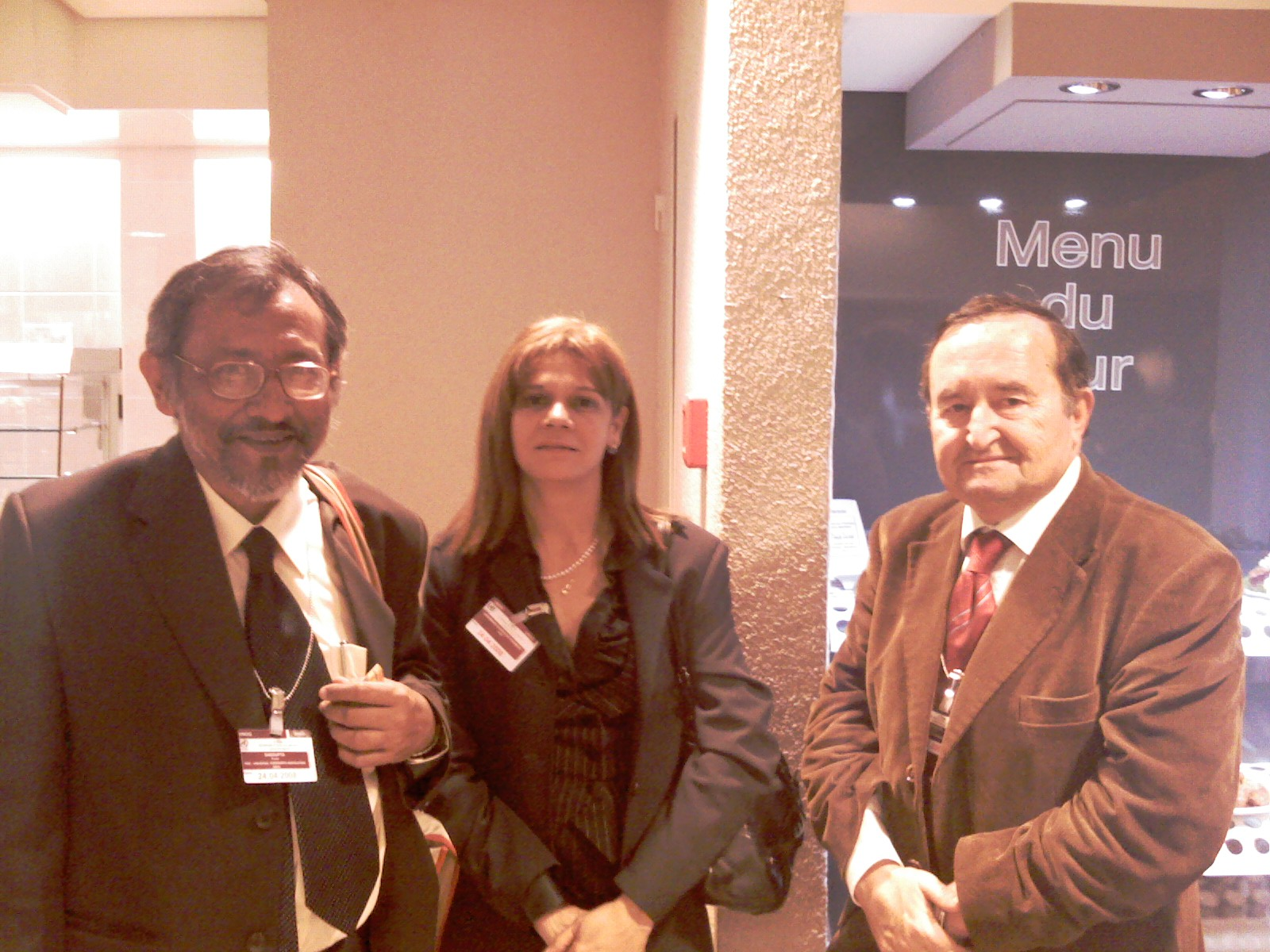 Simposium on Linguistic Rights of Universal Esperanto Association, from left to right: Probal Dasgupta, President of UEA; Nelida Weidmann, member of the board of SES; Renato Corsetti, former President of UEA Simpozio pri Lingvaj Rajtoj de Universala Esperanto-Asocio, de maldekstre: Probal Dasgupta, prezidanto de UEA; Nelida Weidmann, estraranino de SES; Renato Corsetti, eksprezidanto de UEA